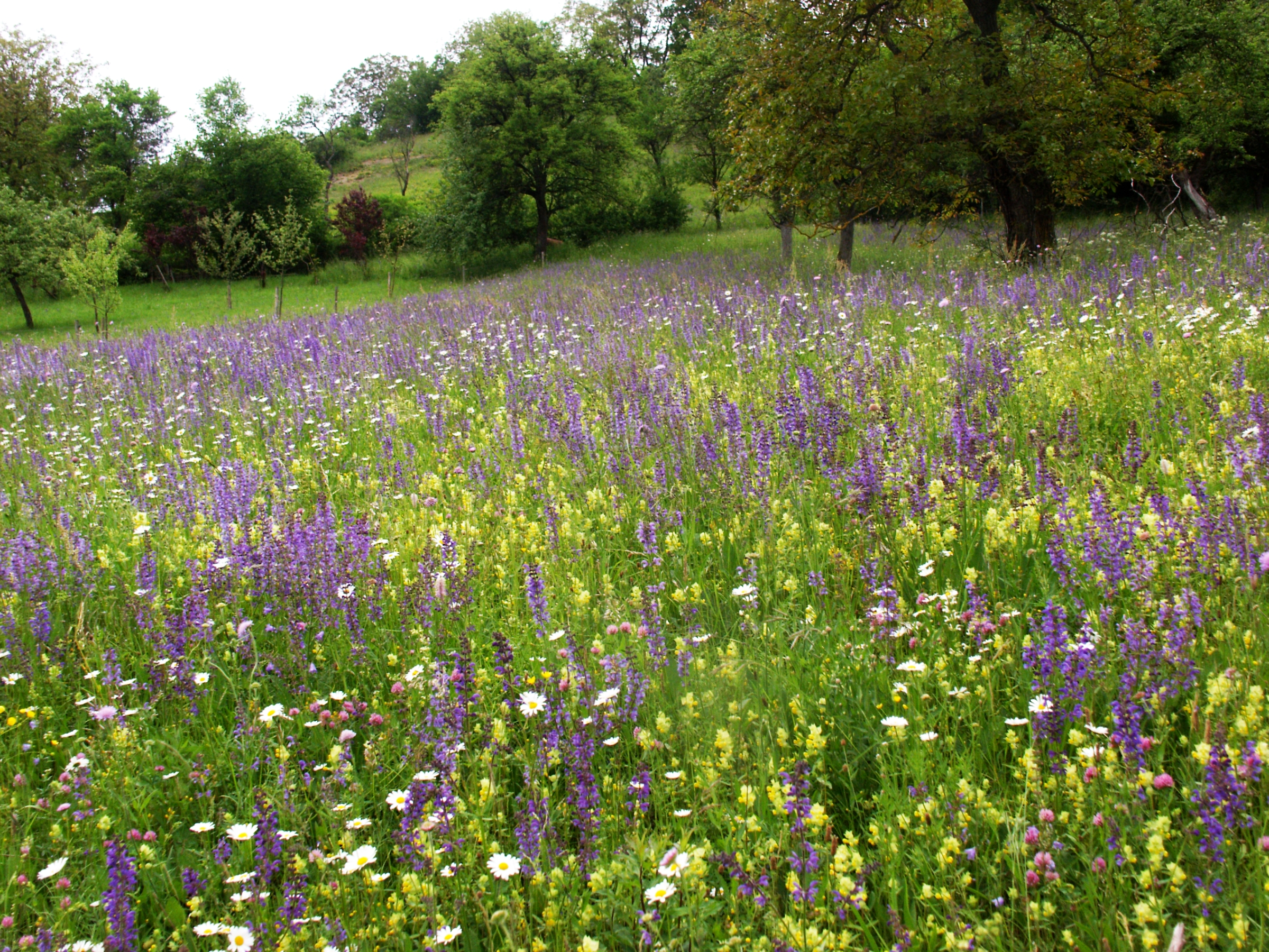 Arrhenatheretum salvietosummit Arrhenatherum elatius, Leucanthemum vulgare, Rhinantus alectorolophus, Salvia pratensis, etc.